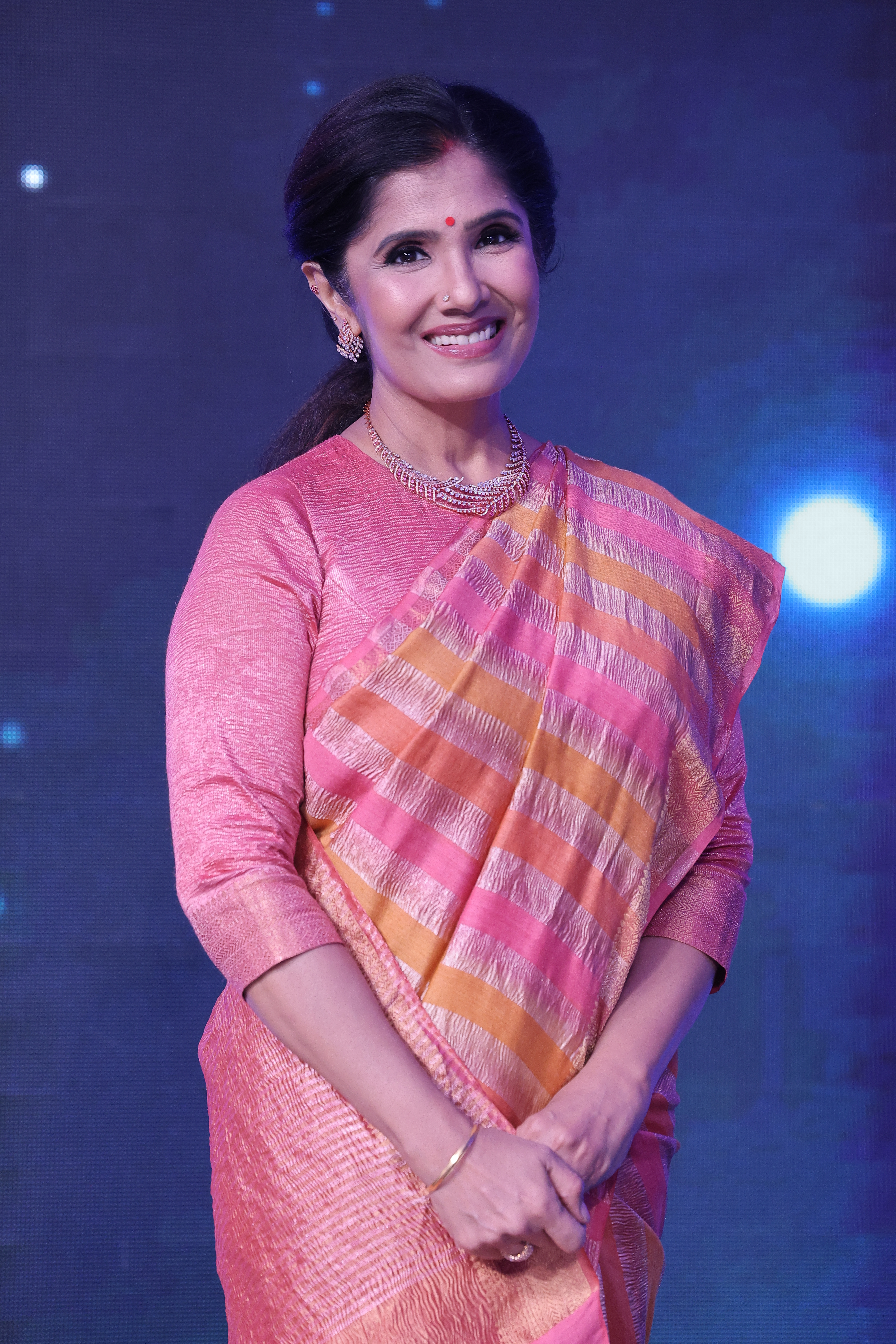 Picture of playback singer Anuradha Sriram